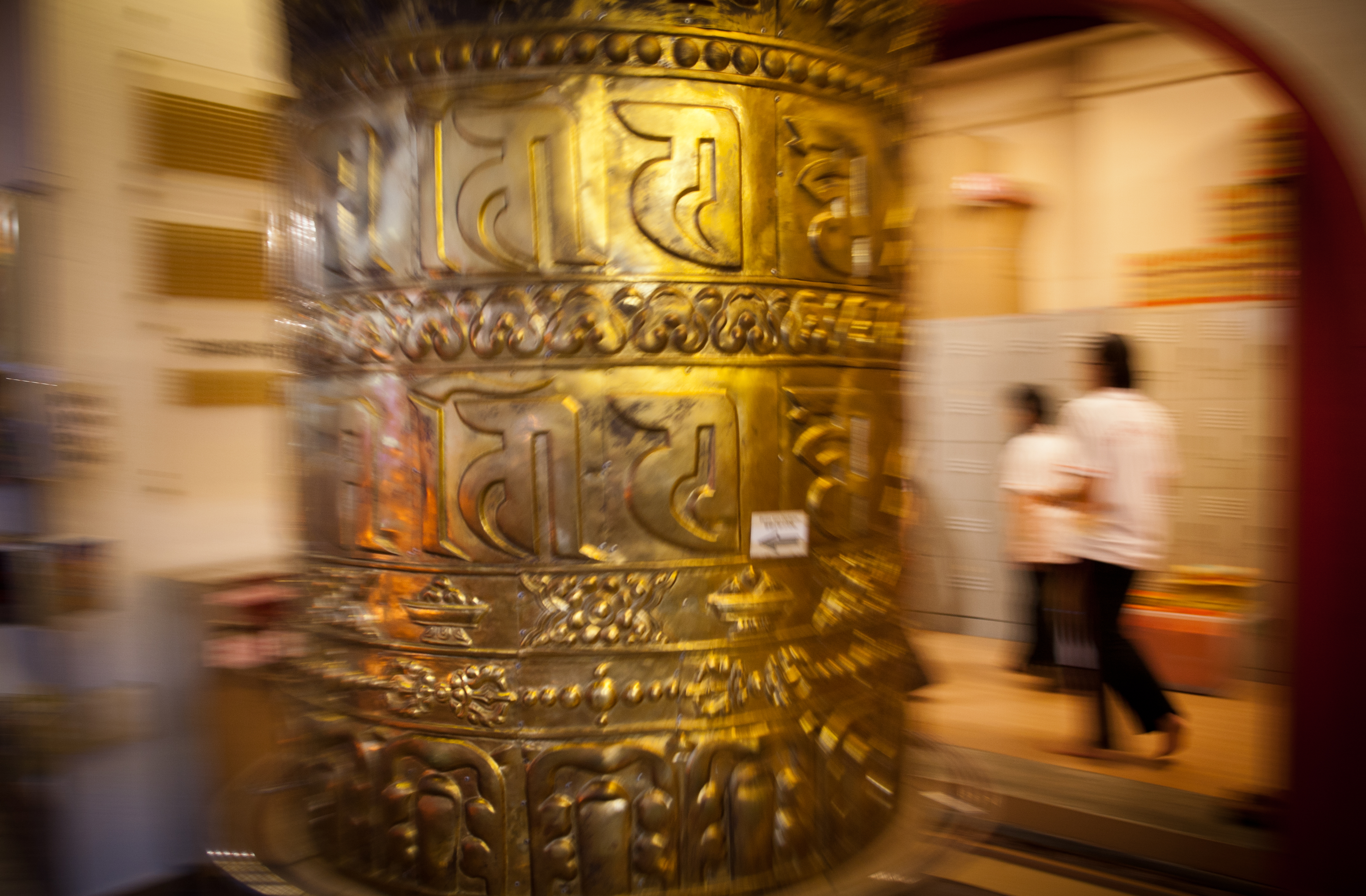 Mani wheel